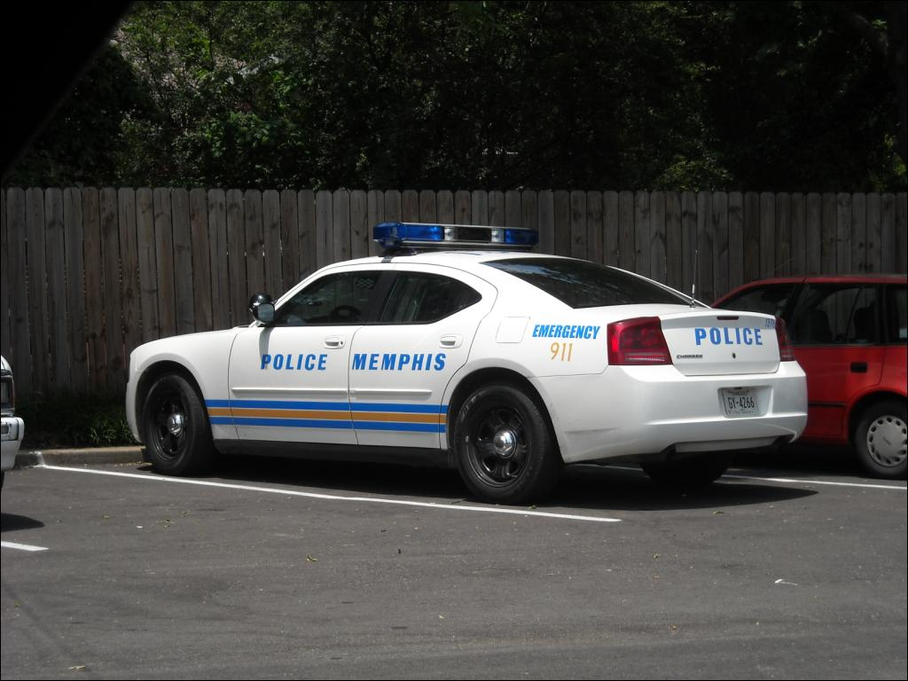 The 2007 Dodge Charger for the Memphis Police Department. Taken in late July of 2008. This image was taken by me with permission of the MPD and free for any use.